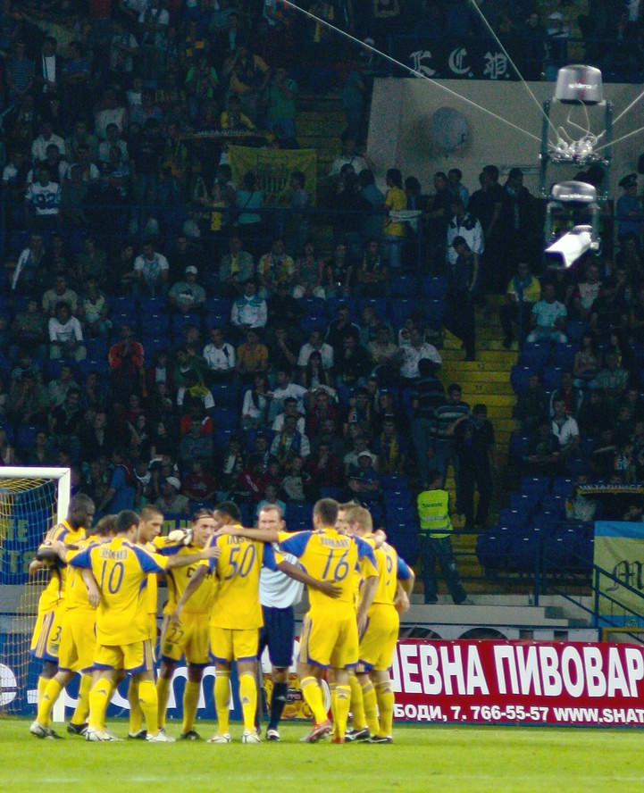 "Pre-match FC "Metalist" team gathering", taken on August 27, 2009 in Kharkiv, Kharkiv Oblast, using a Canon EOS 1000D.